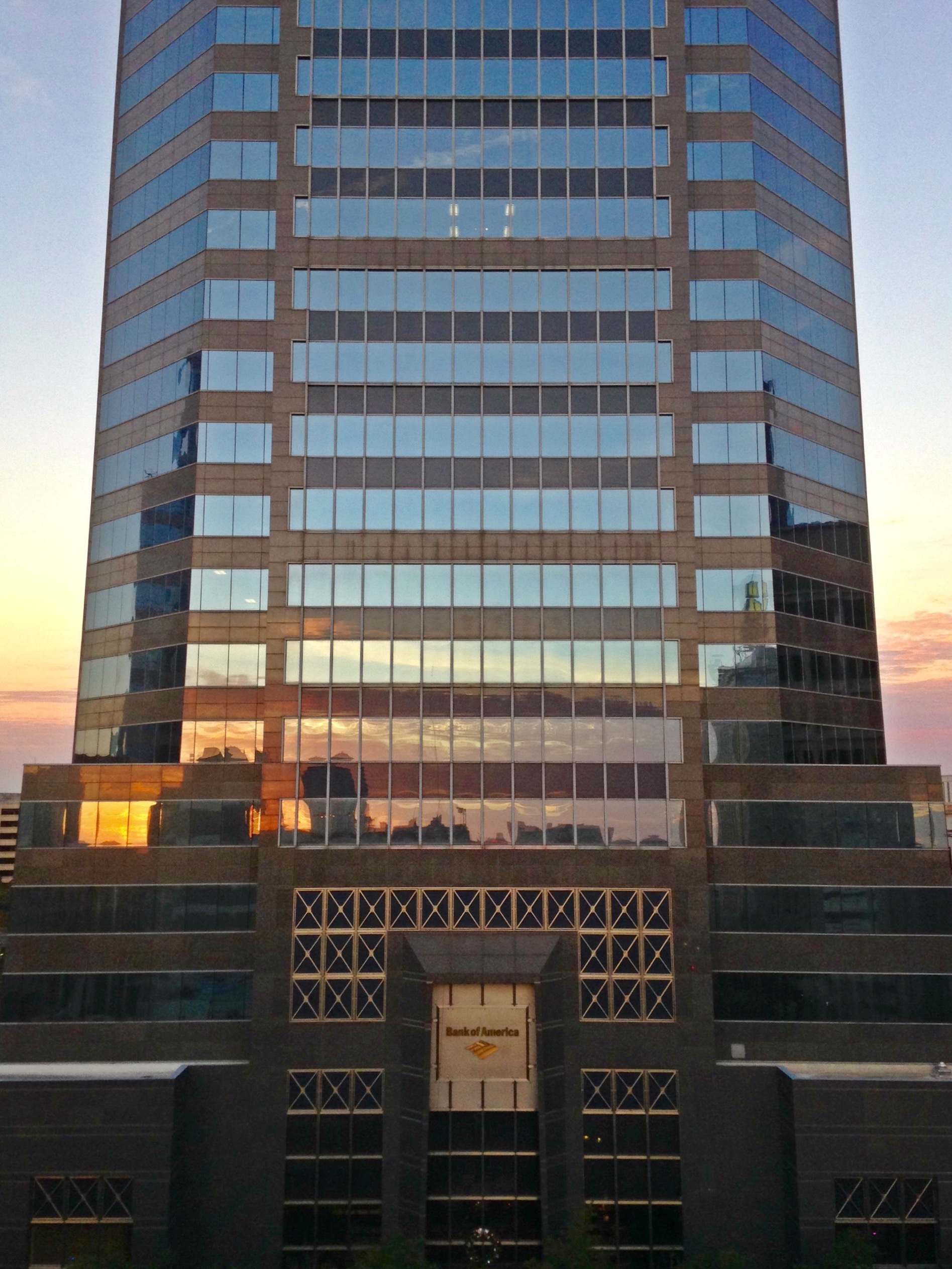 Bank of America Tower, Jacksonville, Florida, United States